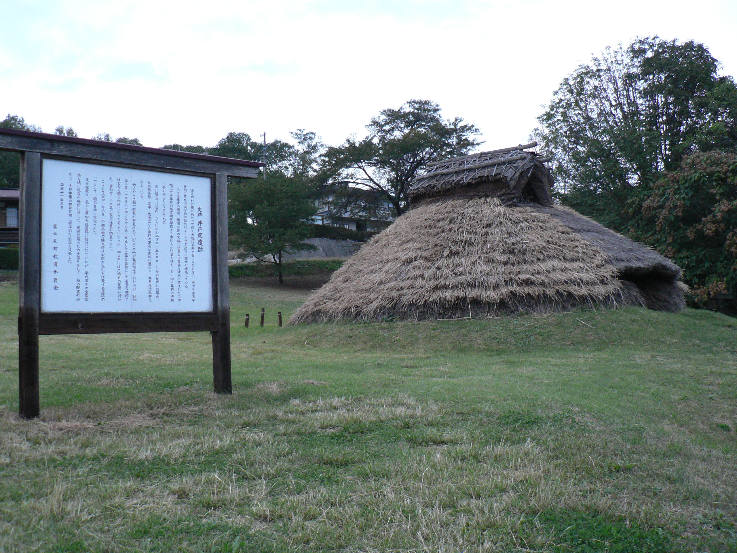 Nagano-ken, Fujimi-cho, Jomon period Idojiri Ruins